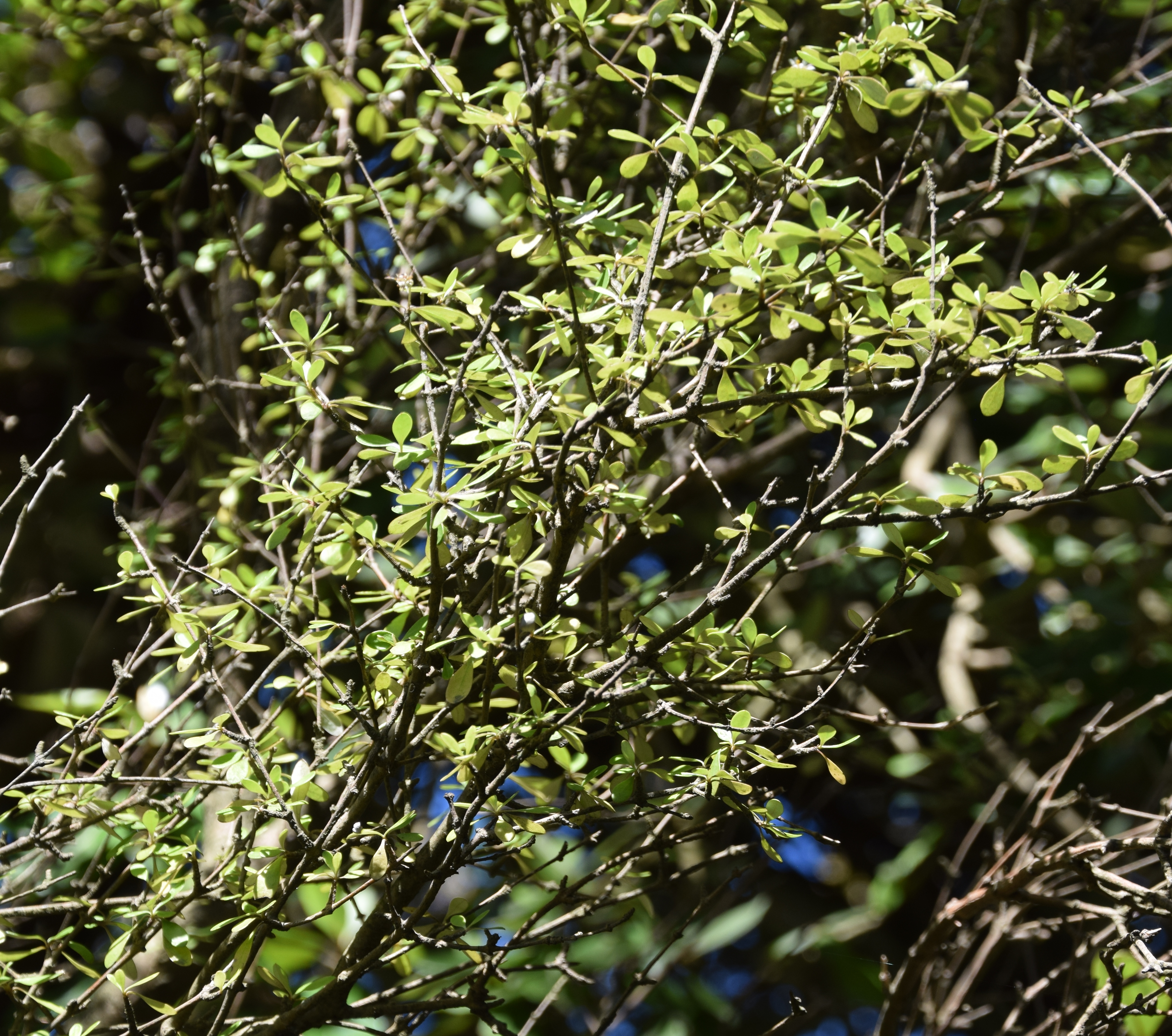 Olearia odorata in Dunedin Botanic Garden, Dunedin, New Zealand